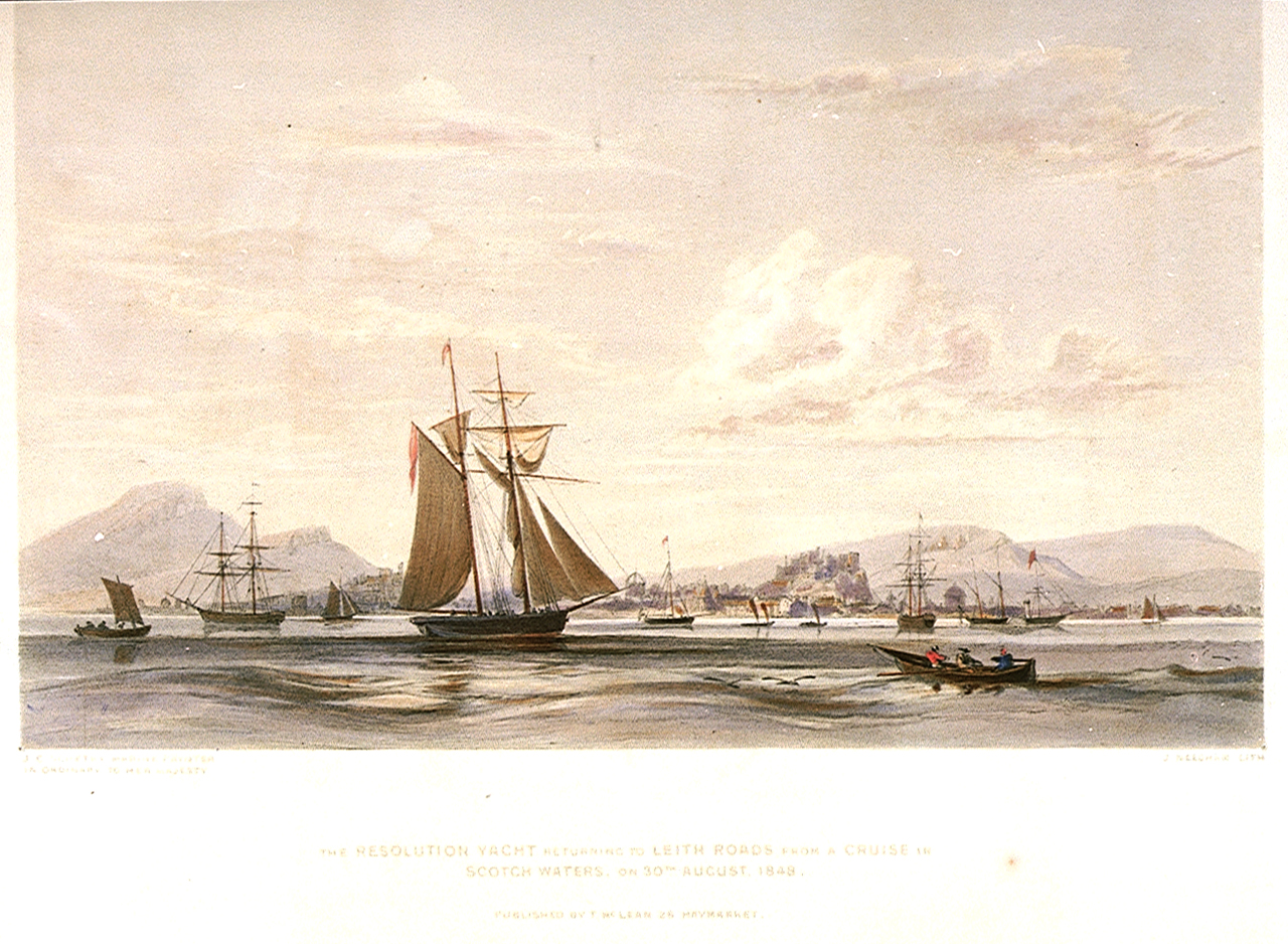 The Resolution Yacht returning to Leith Roads from a Cruise in Scotch Waters, on 30th August, 1848 Print